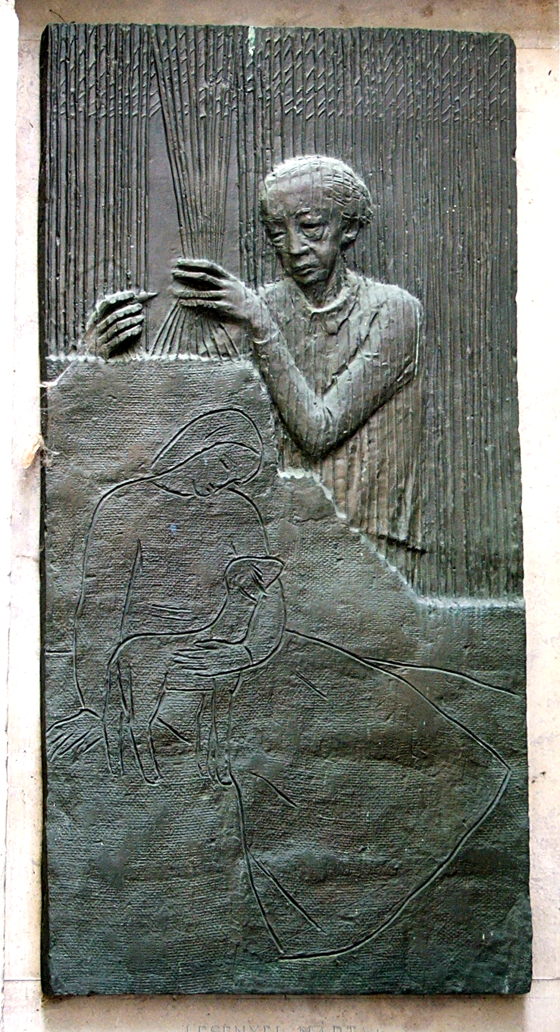 Memorial plate of Noemi Ferenczy in Szentendre